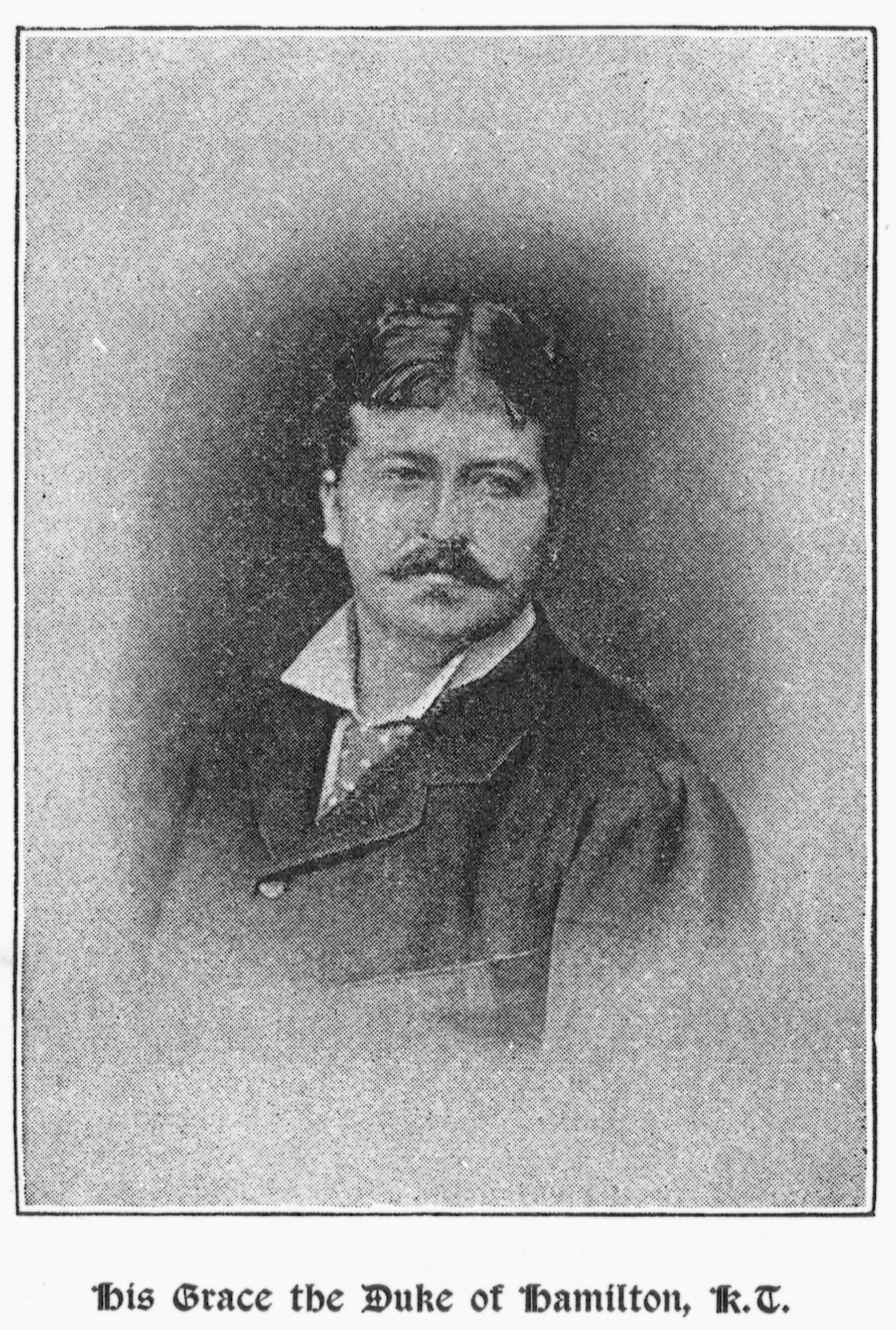 Portrait of Sir William Alexander Louis Stephen Douglas-Hamilton, 12th Duke of Hamilton, published August 1893 in Suffolk Celebrities